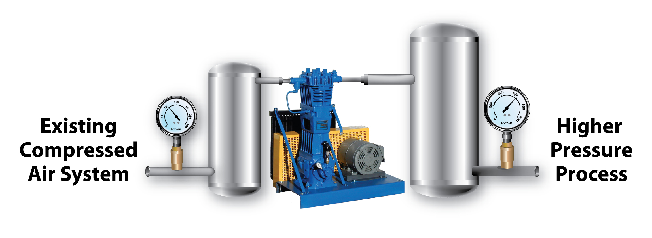 Typical air booster setup. The air booster receives compressed air from an existing network and increases it to a higher pressure.